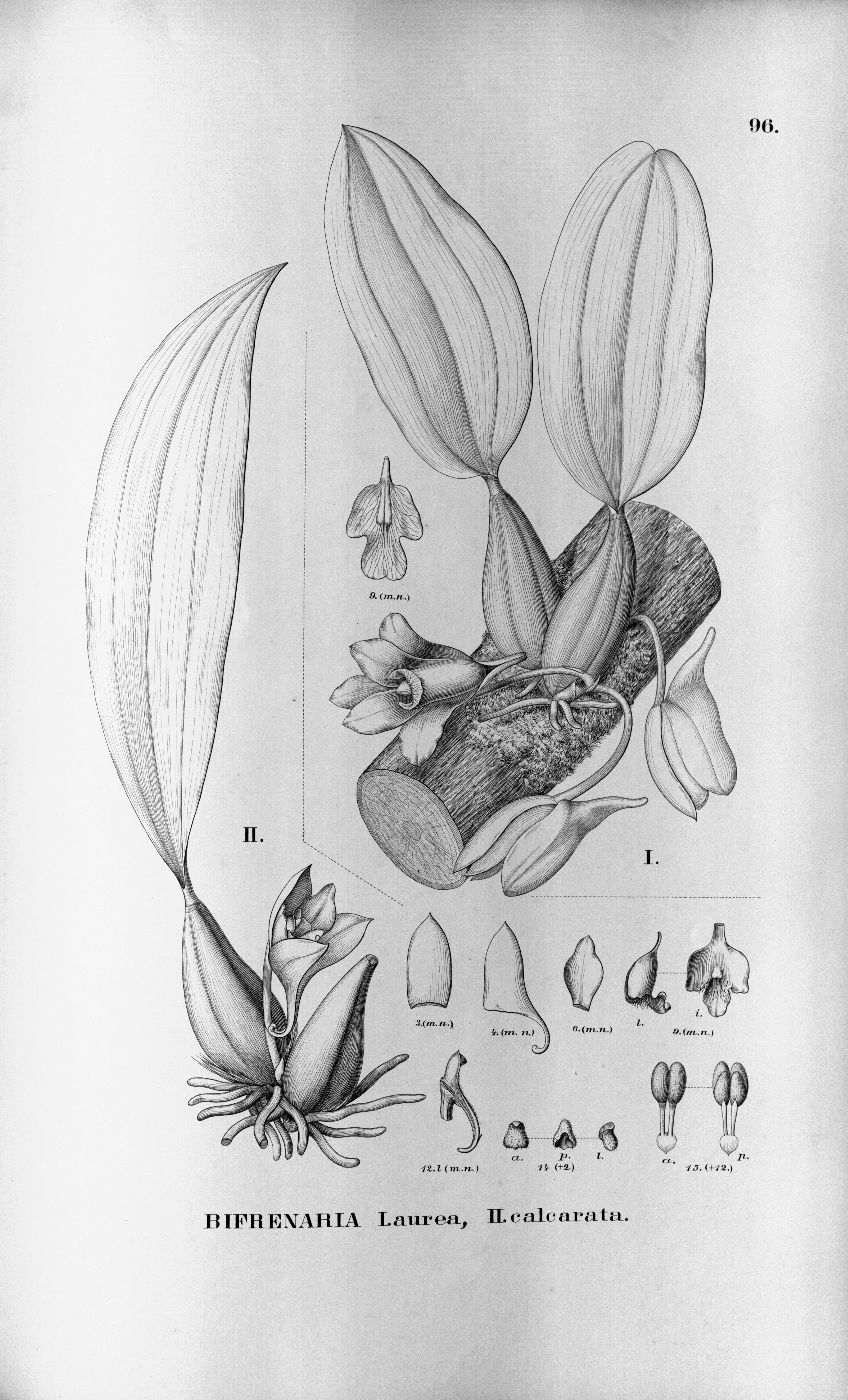 Illustration of I. Bifrenaria harrisoniae (as syn. Bifrenaria aurea) II. Bifrenaria calcarata